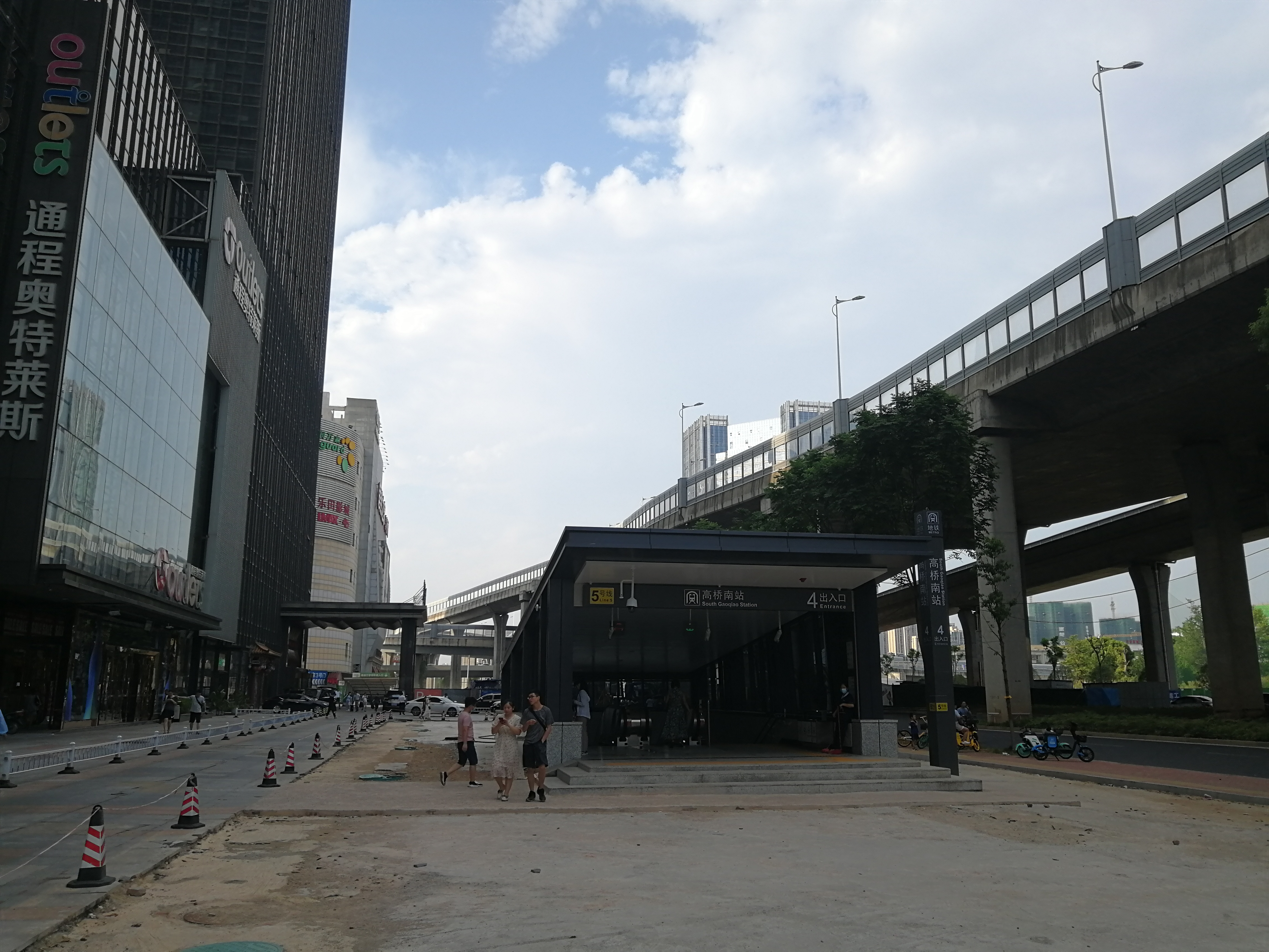 Entrance 4 of South Gaoqiao Station